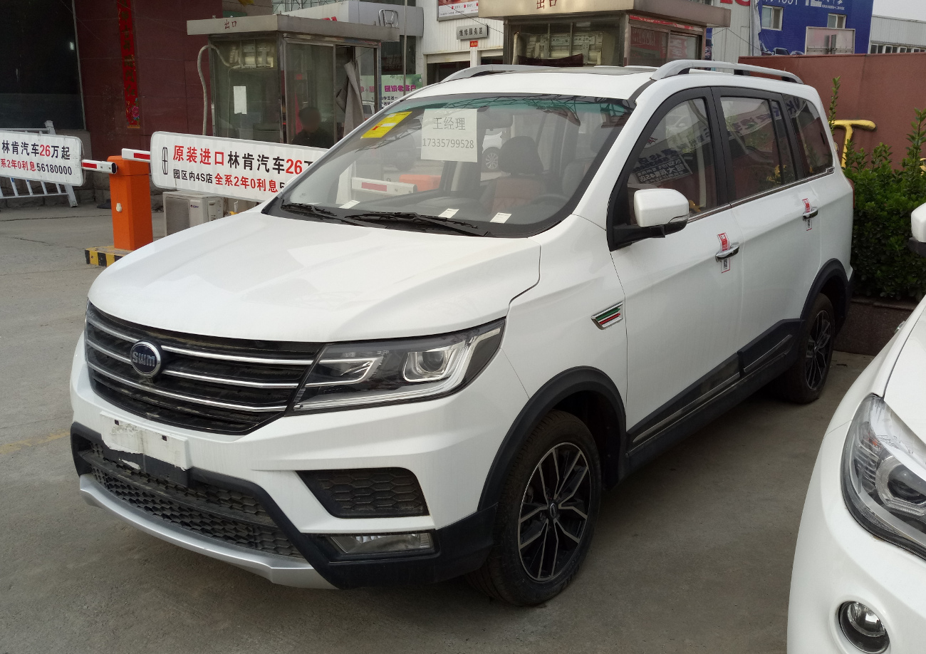 SWM X3 photographed in Zhengzhou, Henan province, China.